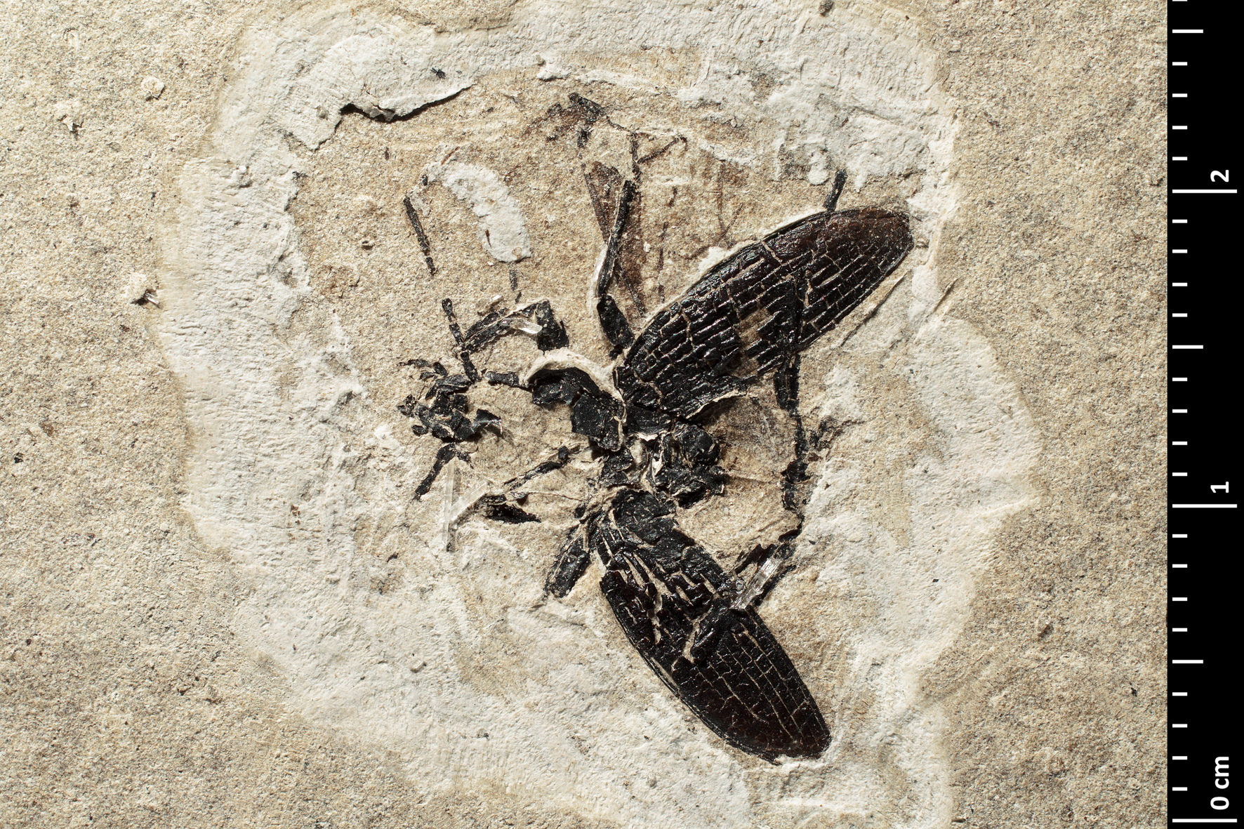 The Ledouxnebria brisaci holotype part specimen with direct lighting. Turolian, Miocene; Montagne d'Andance, Saint-Bauzile, Privas, France Muséum national d'Histoire naturelle specimen MNHN.F.A40896